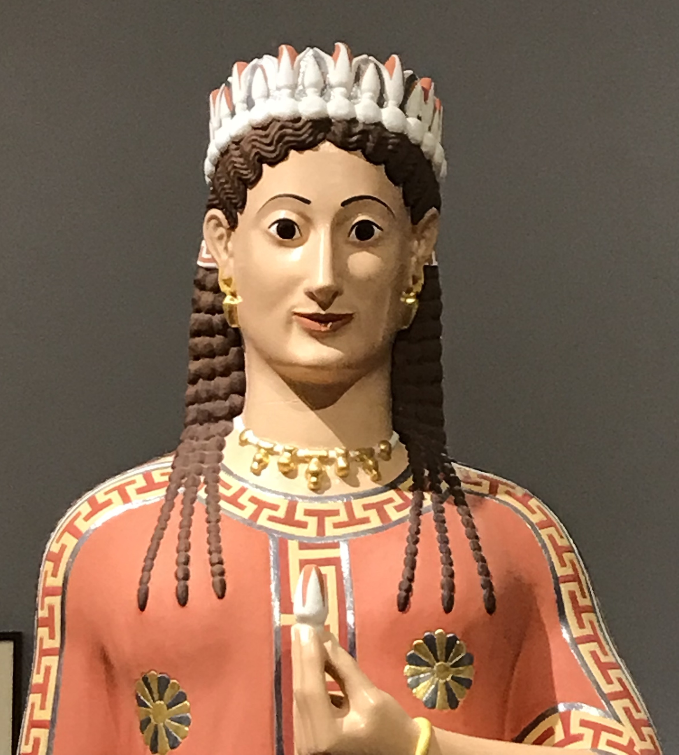 Figure 4– Phrasikleia crown of lotus buds Photo: courtesy of Brigid Powers 2017, from Gods in Color San Francisco, CA.